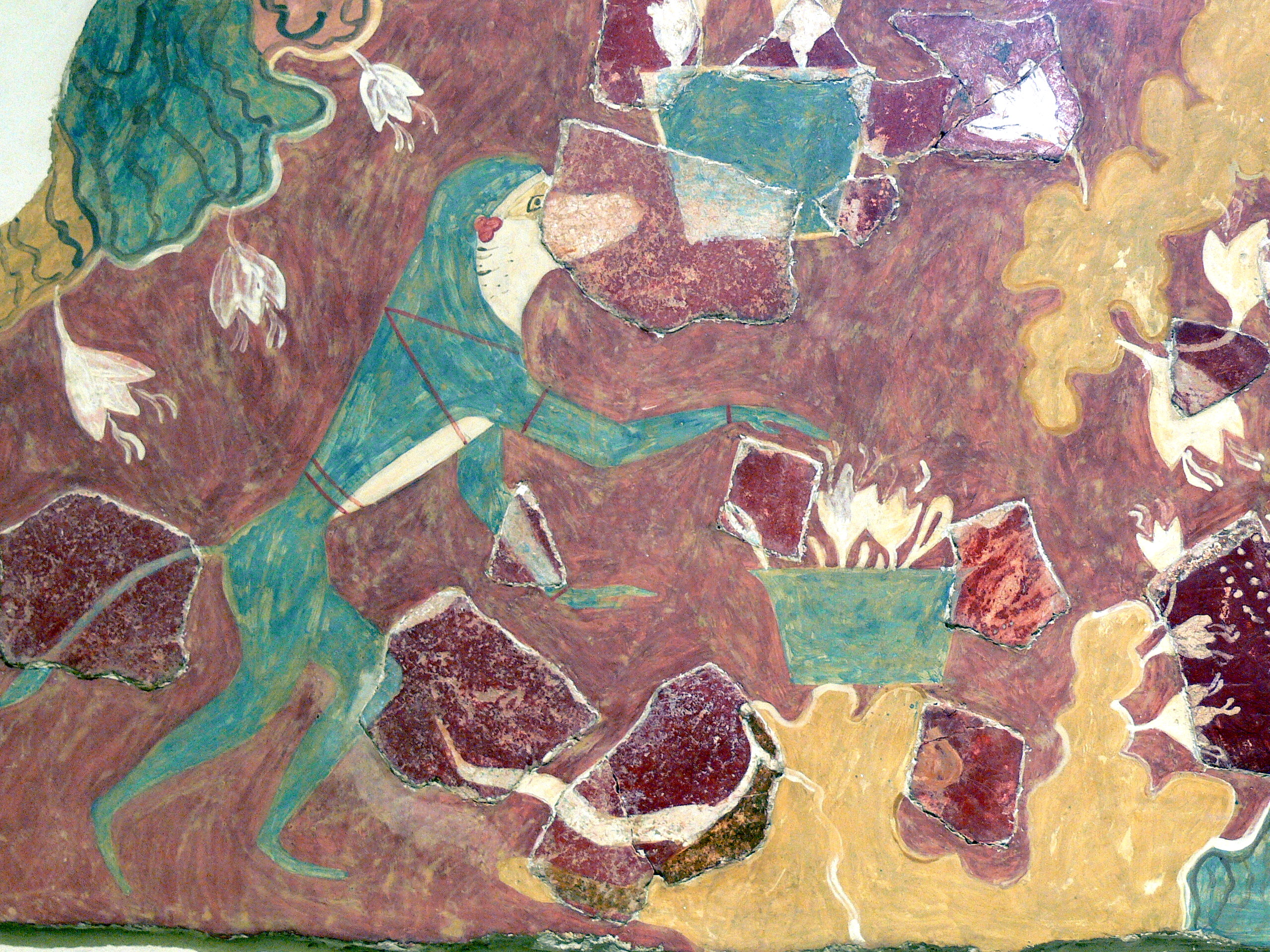 Archaeological Museum of Herakleion. Fresco showing monkeys with crocusses ( 1600 - 1450 B.C ).